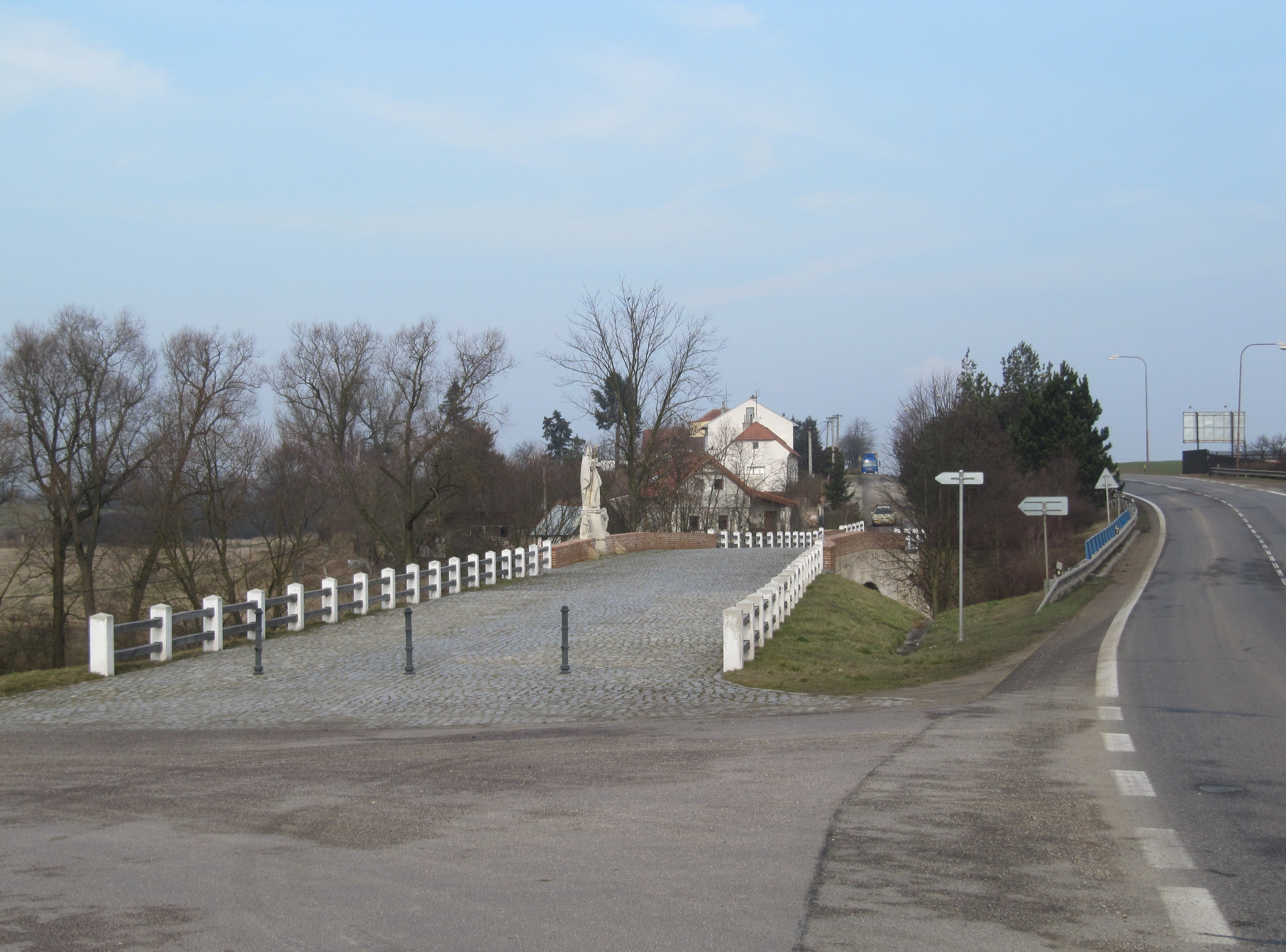 Grešlové Mýto, Znojmo District, Czech Republic. Baroque road bridge with a statue of St. Nicholas from 1764.